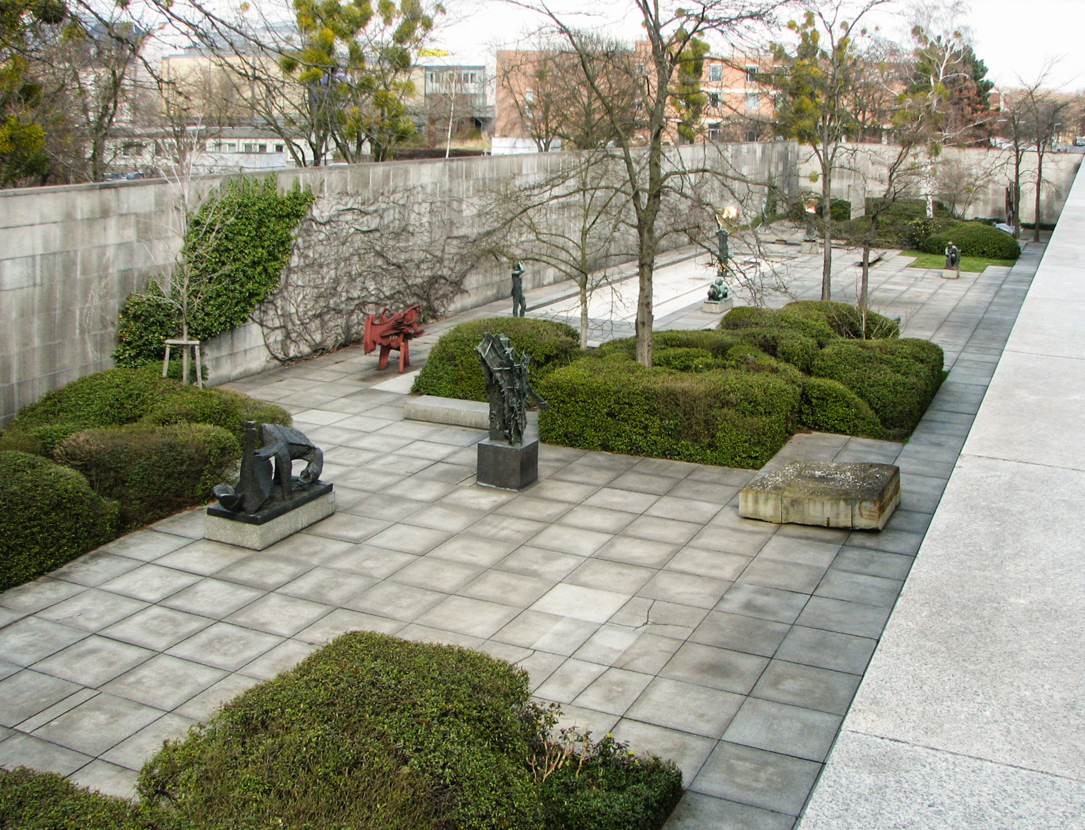 Designed as part of the museum, this sculpture garden consists of 17 sculptures in Berlin/Germany: from left to right Marino Marini (Der Schrei 1963), Bernhard Luginbühl (Punch 1966) and Otto Herbert Hajek (Raumschichtung 60/20 1960)